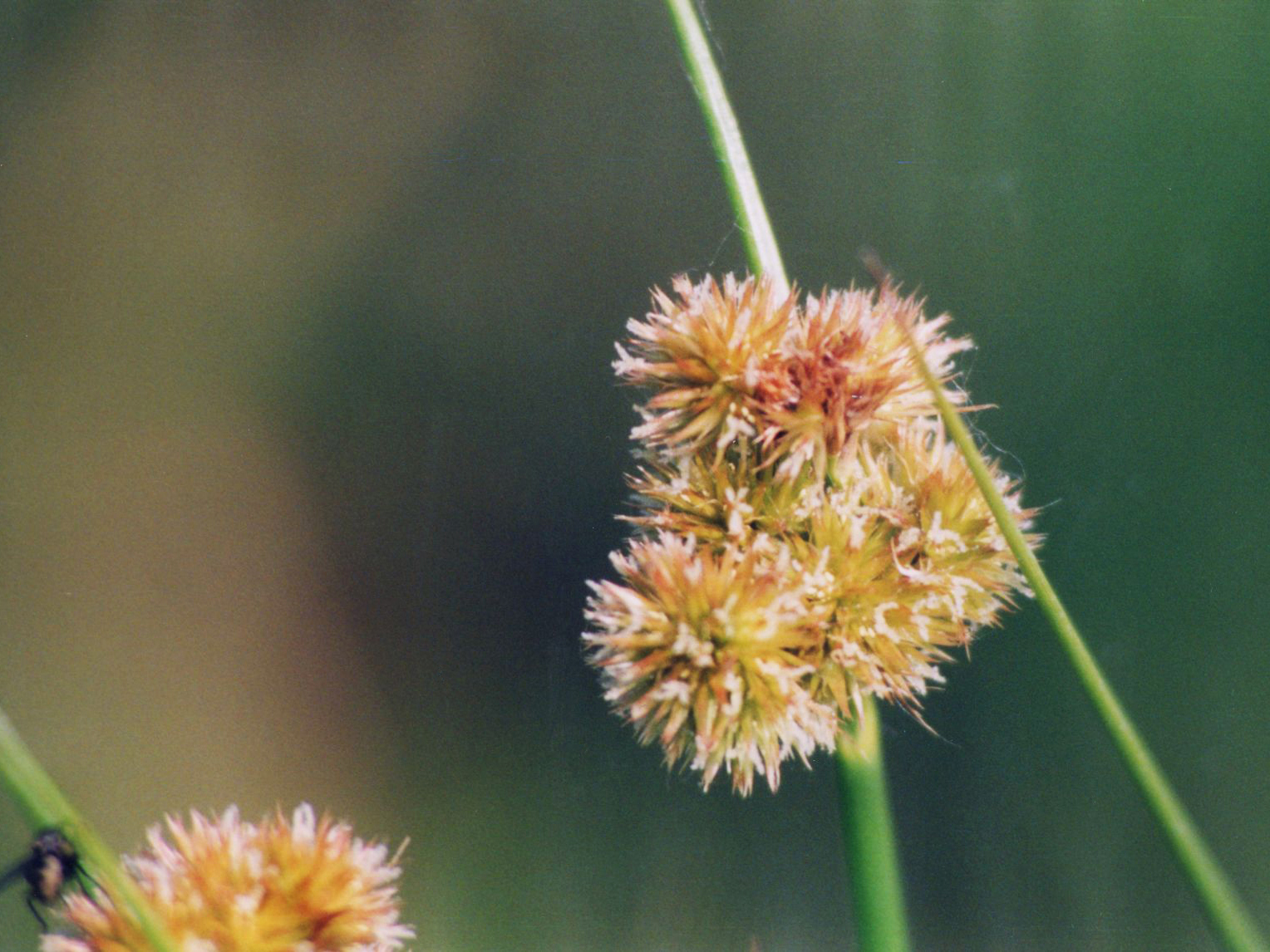 Juncus torreyi Coville - Torrey's rush